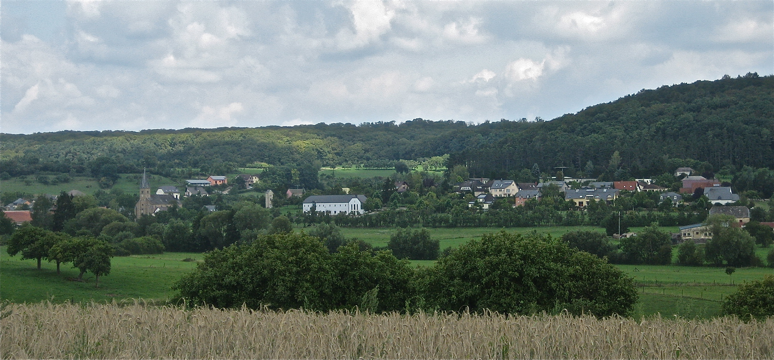 View on Bech, Luxembourg.